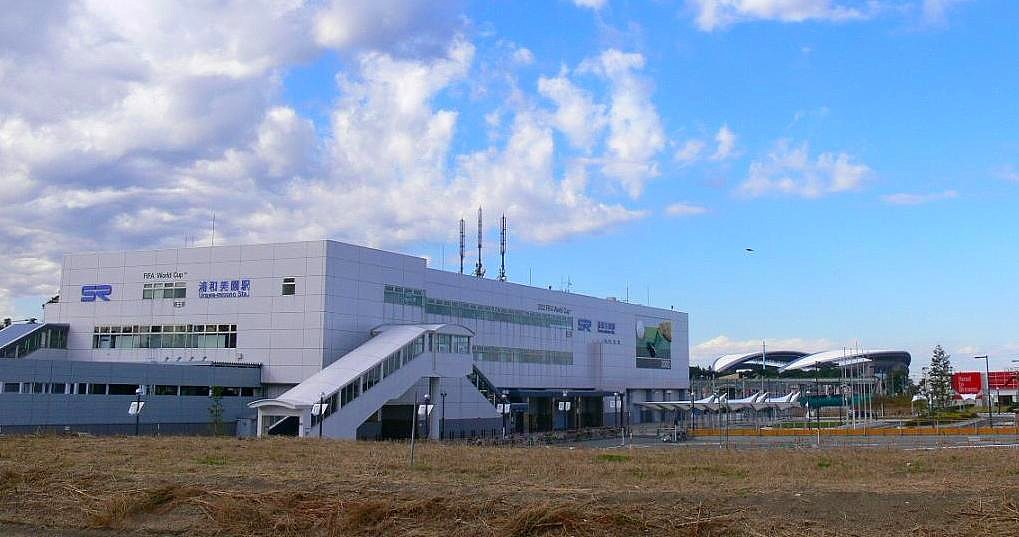 Saitama Railway Urawamisono station(Japan). It takes a picture of the eastward exit of the Urawamisono station from the south.